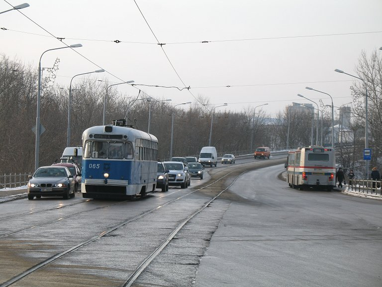 Street view of of one of the main streets (18. Novembra iela) of Daugavpils, in southwestern Latvia. Better resolutions and other pictures available upon request.